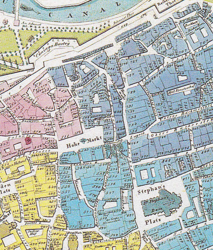 Part of a historical map of Vienna within its city walls, published around 1830